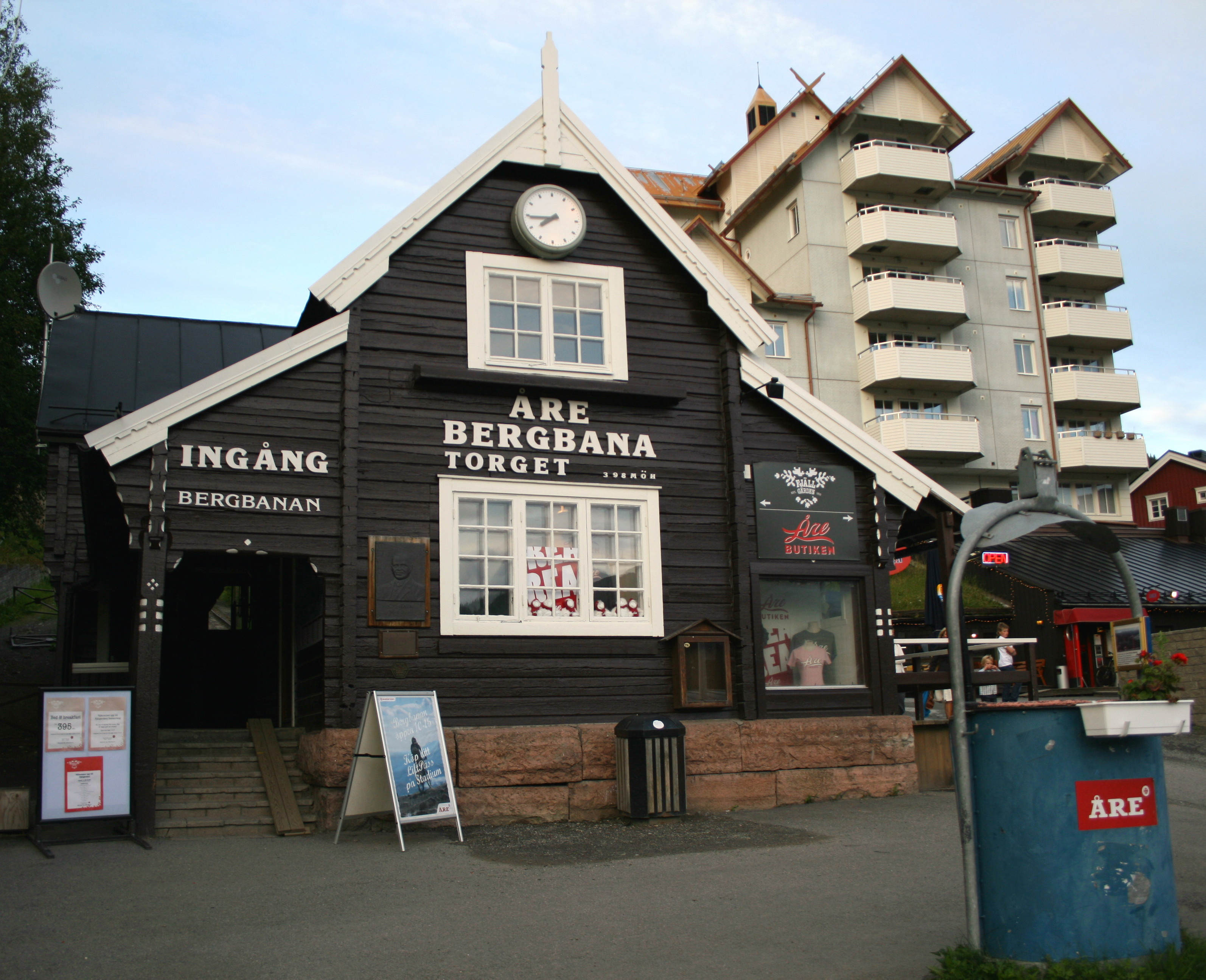 Valley station of Åre Funicular